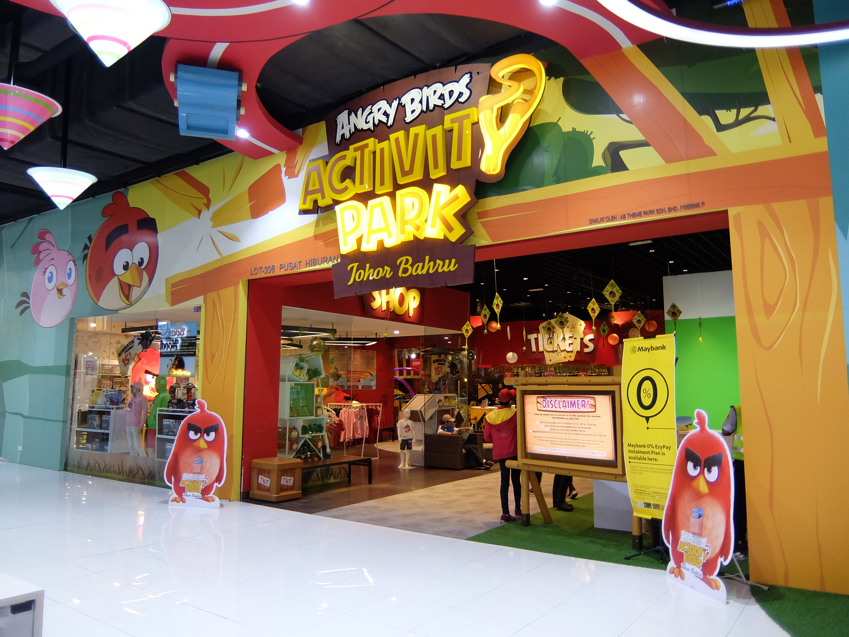 Angry Birds Activity Park, Komtar JBCC, Johor Bahru, Johor, Malaysia